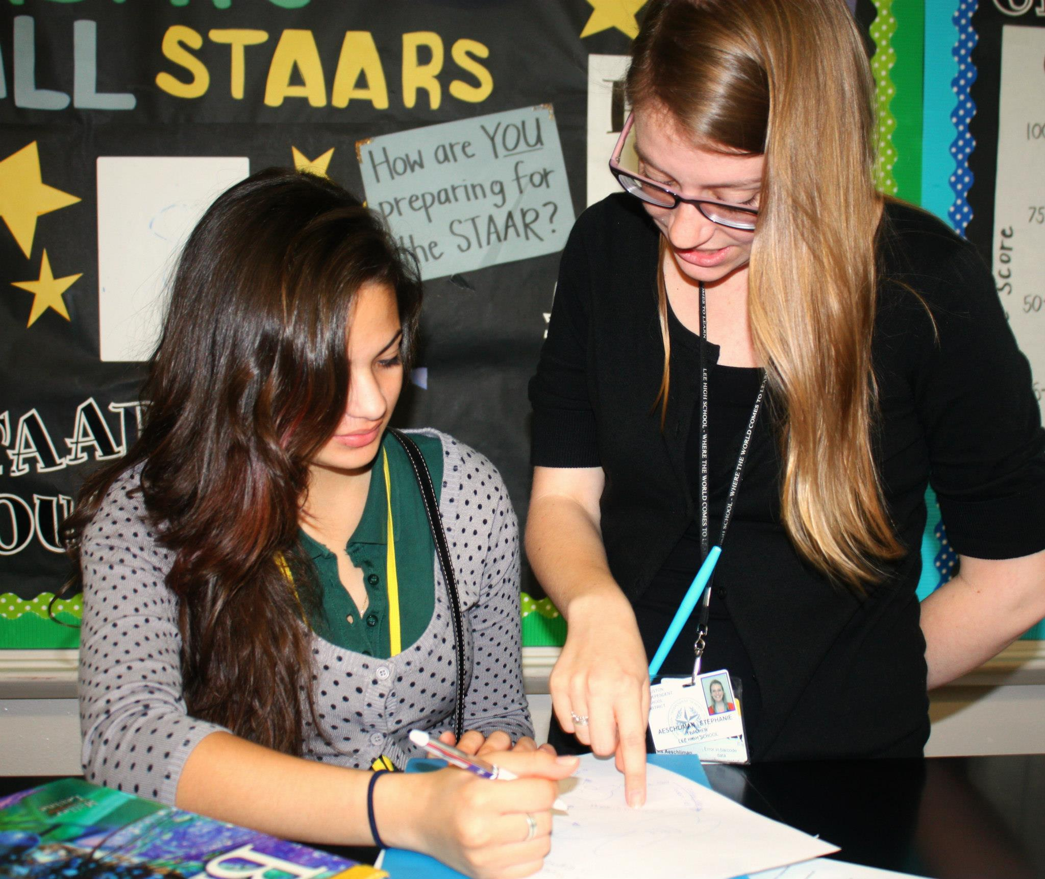 Cuban Native Liety Garcia during Bioligy class getting a explanation about the process of Cell Respiration from Ms.Aeschilieman.